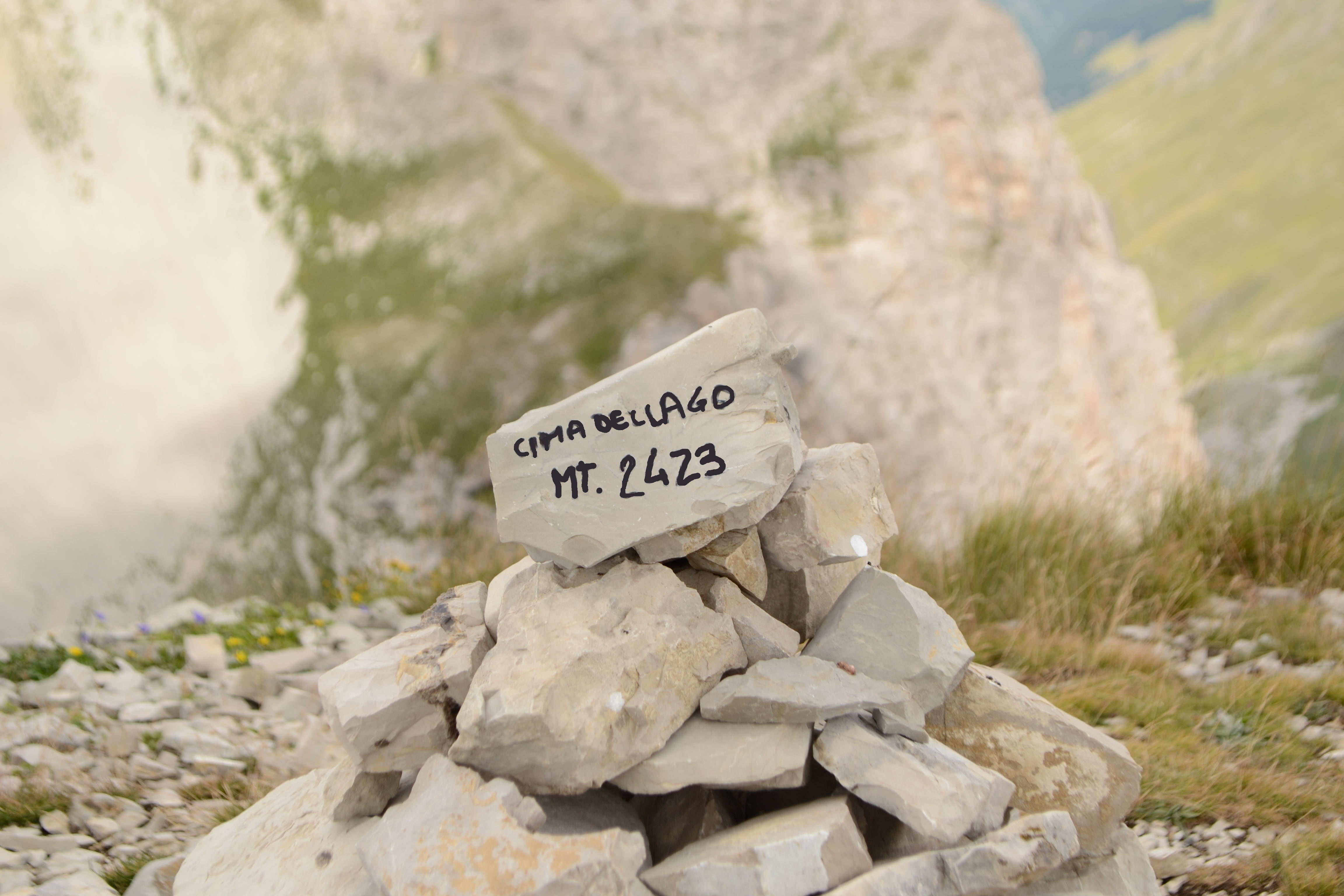 Vetta di Cima del Lago.